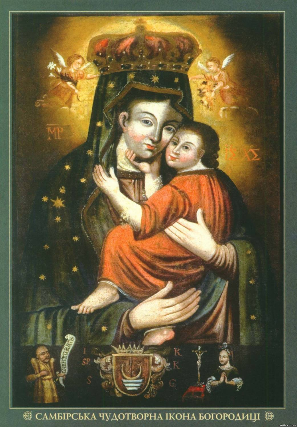 Sambor Theotokos